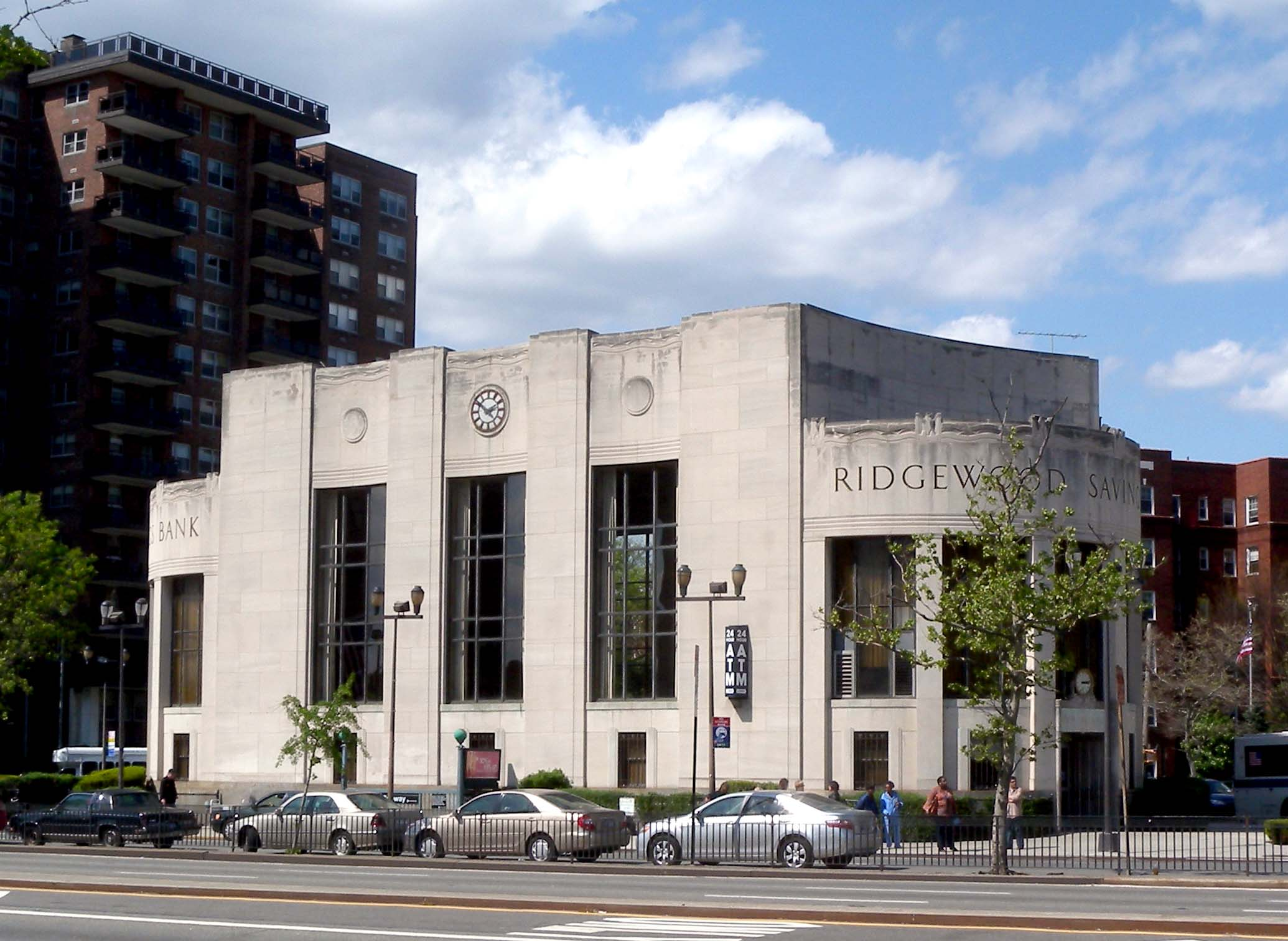 Looking northwest across Queens Boulevard at 107-56 Qns Blvd, Ridgewood Savings Bank on a sunny afternoon. Halsey, McCormack & Helmer design. NYCLPC designation 2000.